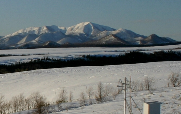 Mt. Samakke-nupuri seen from the Southeast.